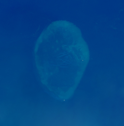 Alexandra Bank is a coral reef in the South China Sea.